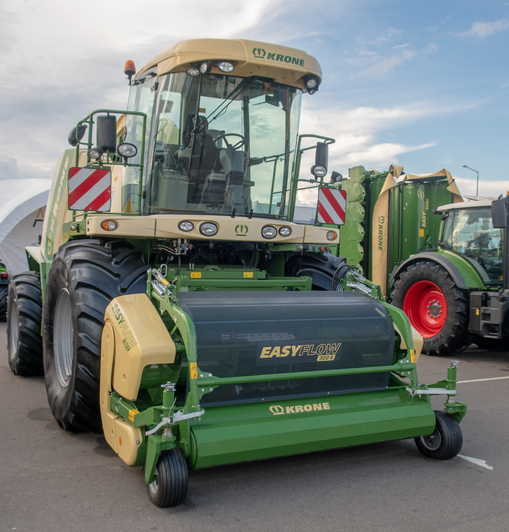 Krone vehicle. Photo taken at Belagro-2019 exhibition (Minsk district, Belarus)